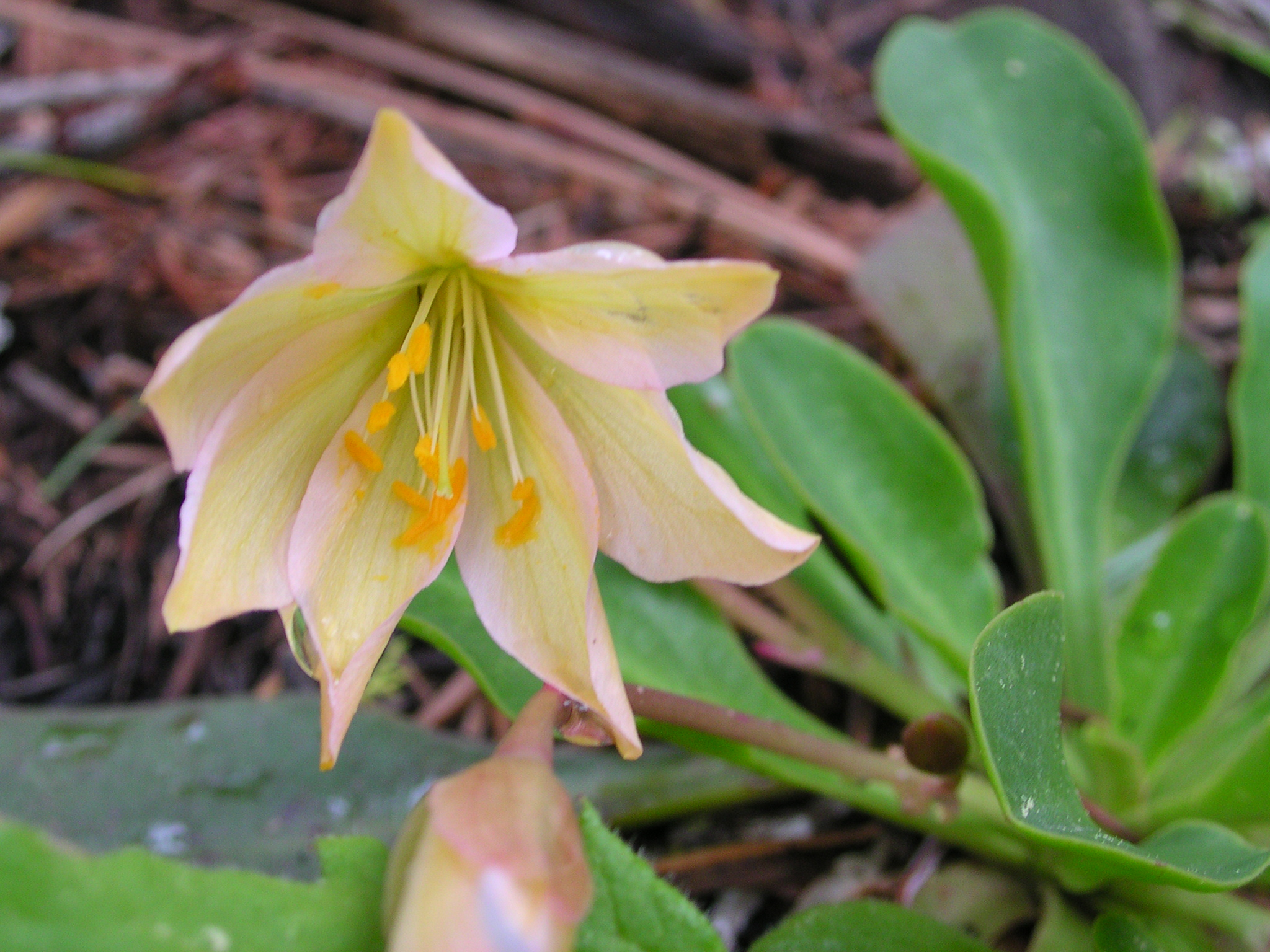 Cistanthe tweedyi on USDA PLANTS Profile (updated 28 Sep 2008) Kingdom Plantae – Plants Subkingdom Tracheobionta – Vascular plants Superdivision Spermatophyta – Seed plants Division Magnoliophyta – Flowering plants Class Magnoliopsida – Dicotyledons Subclass Caryophyllidae Order Caryophyllales Family Portulacaceae – Purslane family Genus Cistanthe Spach – pussypaws Species Cistanthe tweedyi (A. Gray) Hershkovitz – Tweedy's pussypaws Swauk Pass elevation ~ 1250 meters, 4100 feet Kittitas County, Washington, USA 5 Jun 2005 off of Highway 97 I061405_082